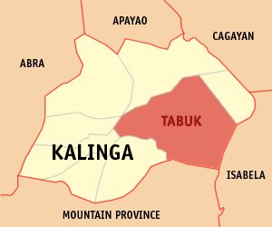 Map of Kalinga showing the location of Tabuk